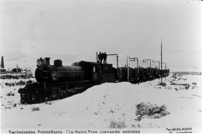 Freight train transporting petroleum, the flagship activity of the Comodoro Rivadavia Railway.